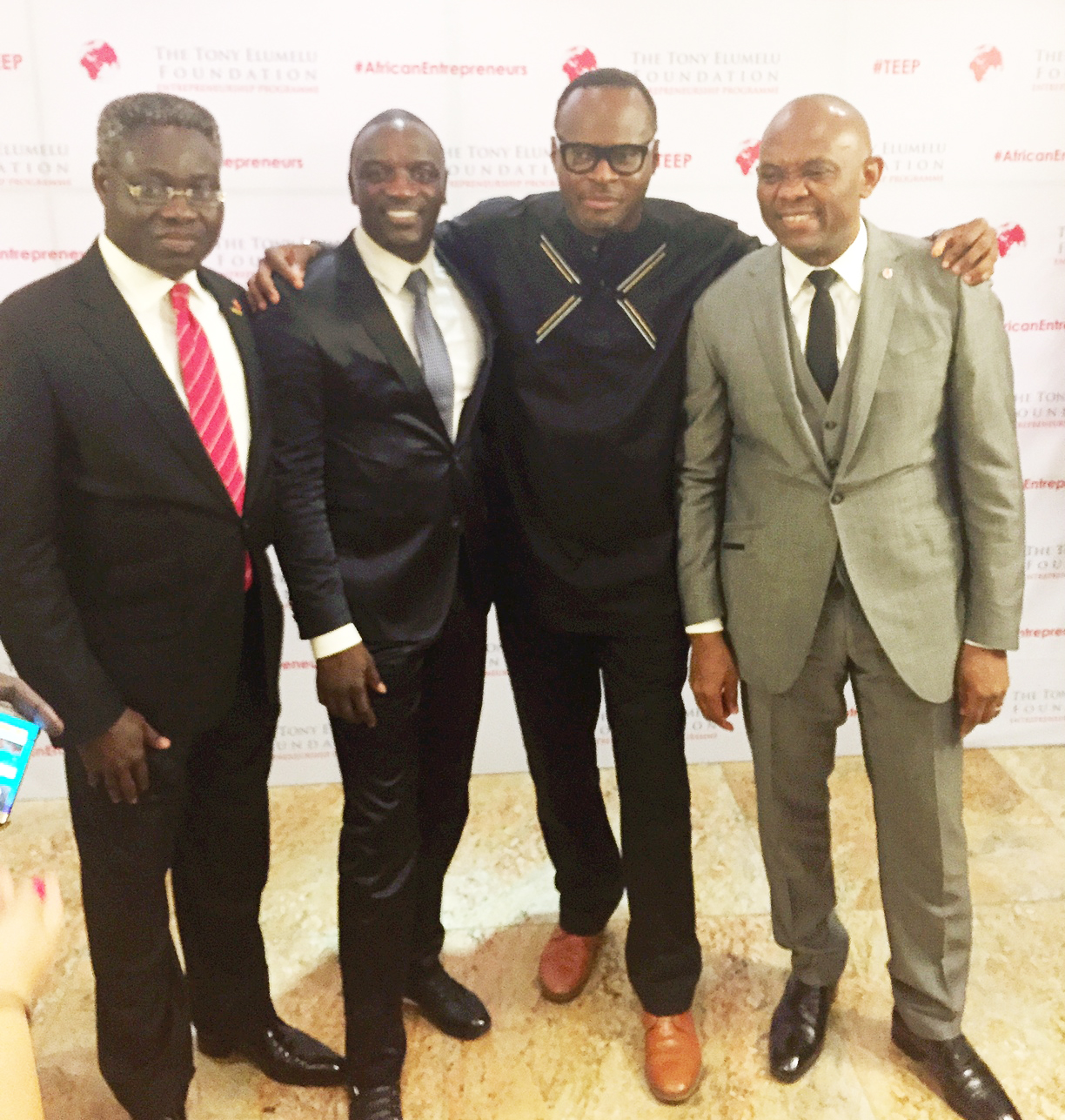 UBA CEO Oduoza, AKon, Ayo Shonaiya and Tony Elumelu at UBA House July 2015